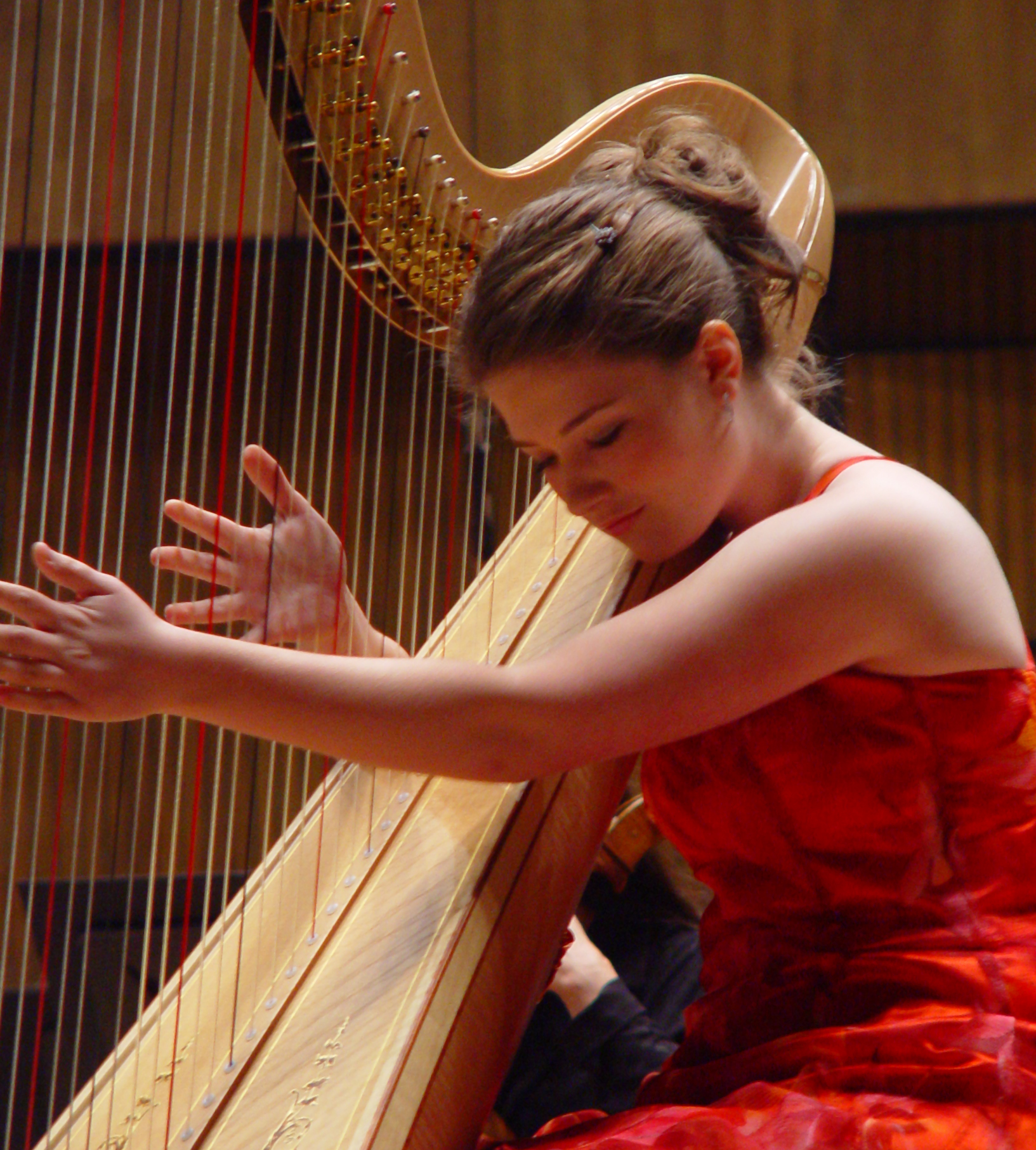 Emily Levin - A contestant in the 17th International Harp Contest in Israel (2009)